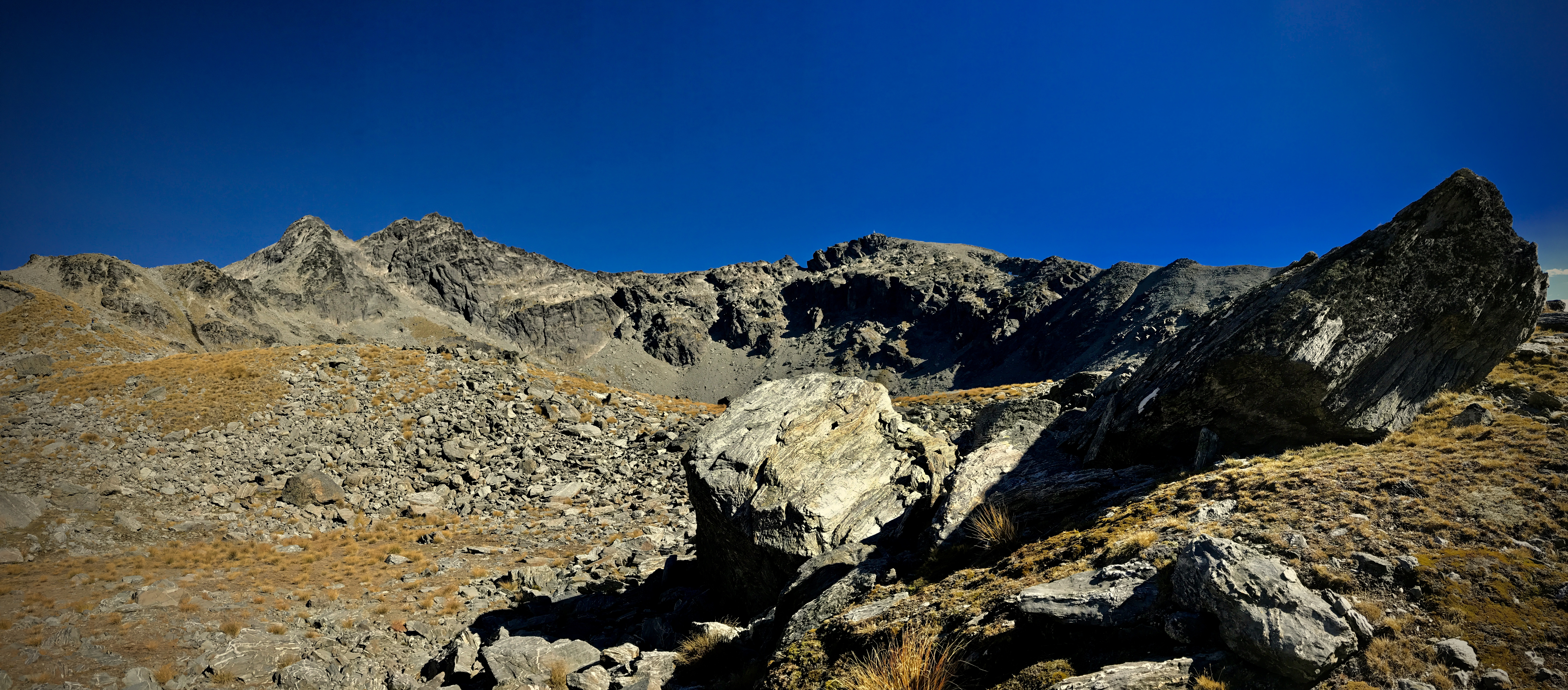 The view when approaching Lake Alta towards Double Cone peak at The Remarkables.